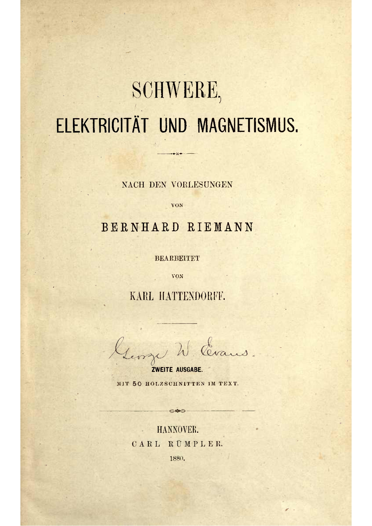 This is a scan of the historical document